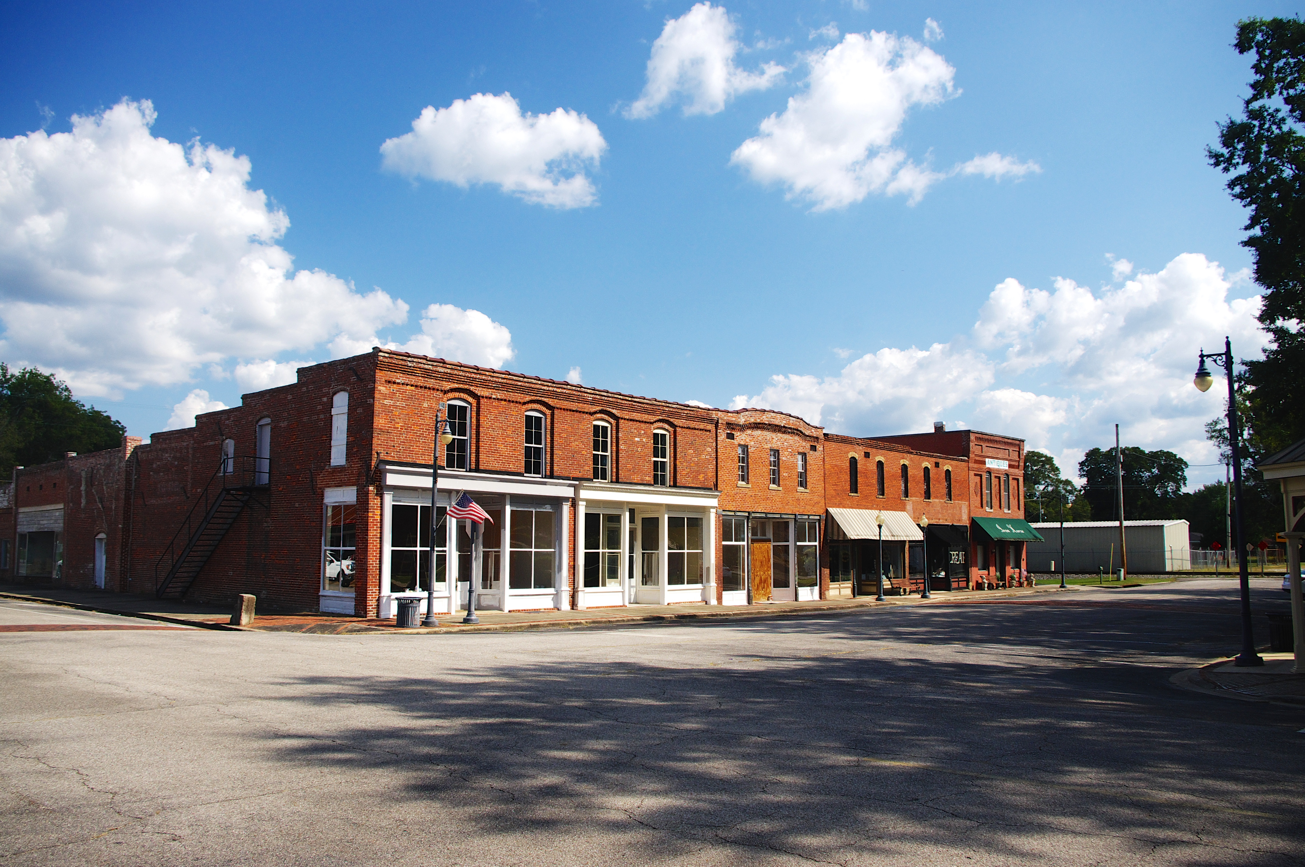 Buildings along College Street on the Town Square in Courtland, Alabama, United States. These buildings are listed on the National Register of Historic Places as contributing properties in the Courtland Historic District.